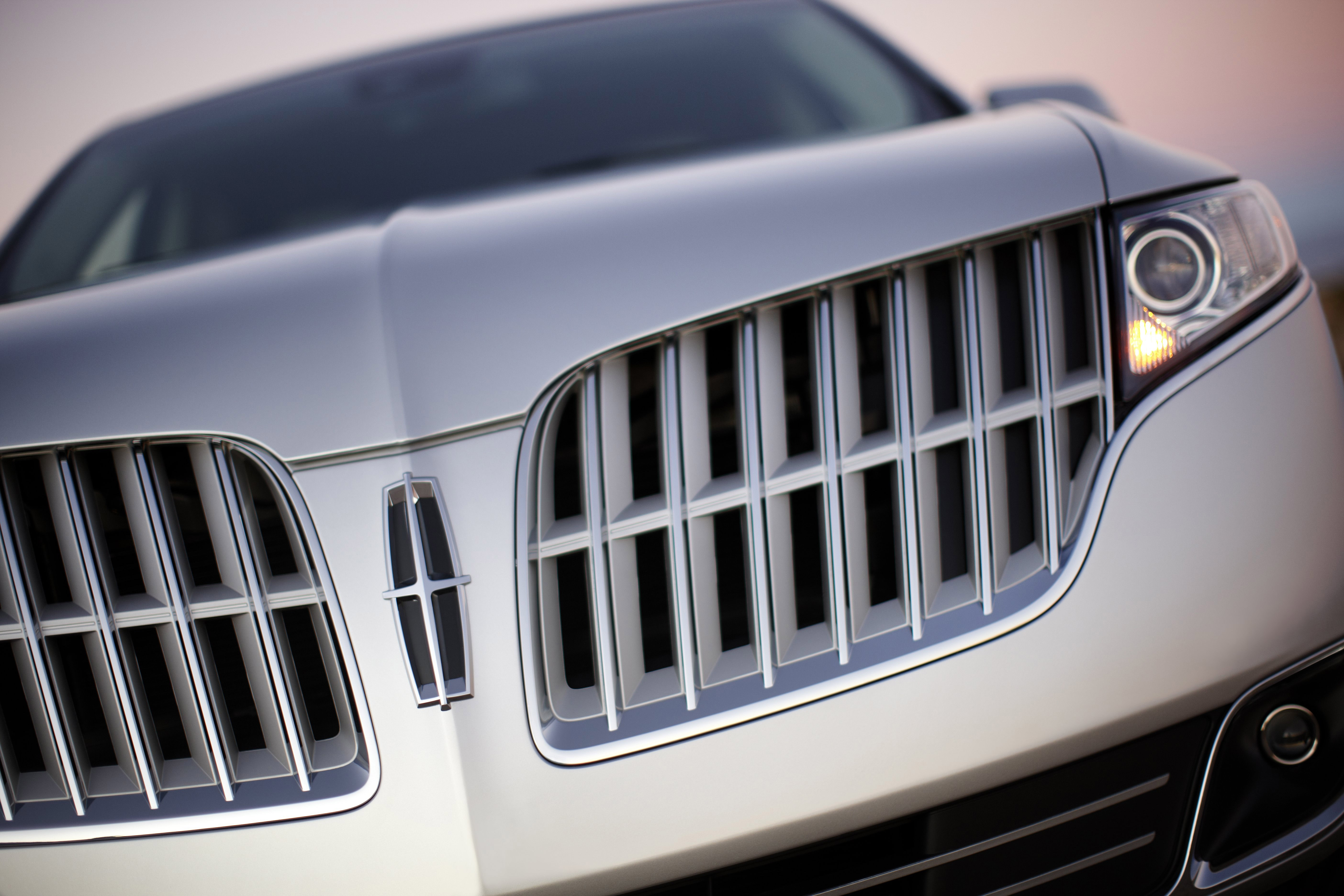 The all-new Lincoln MKT features a distinctive modern design that boldly looks forward, while making respectful nods to timeless Lincoln styling cues of the past. The split-wing grille, for example, recalls the classic 1941 Continental.